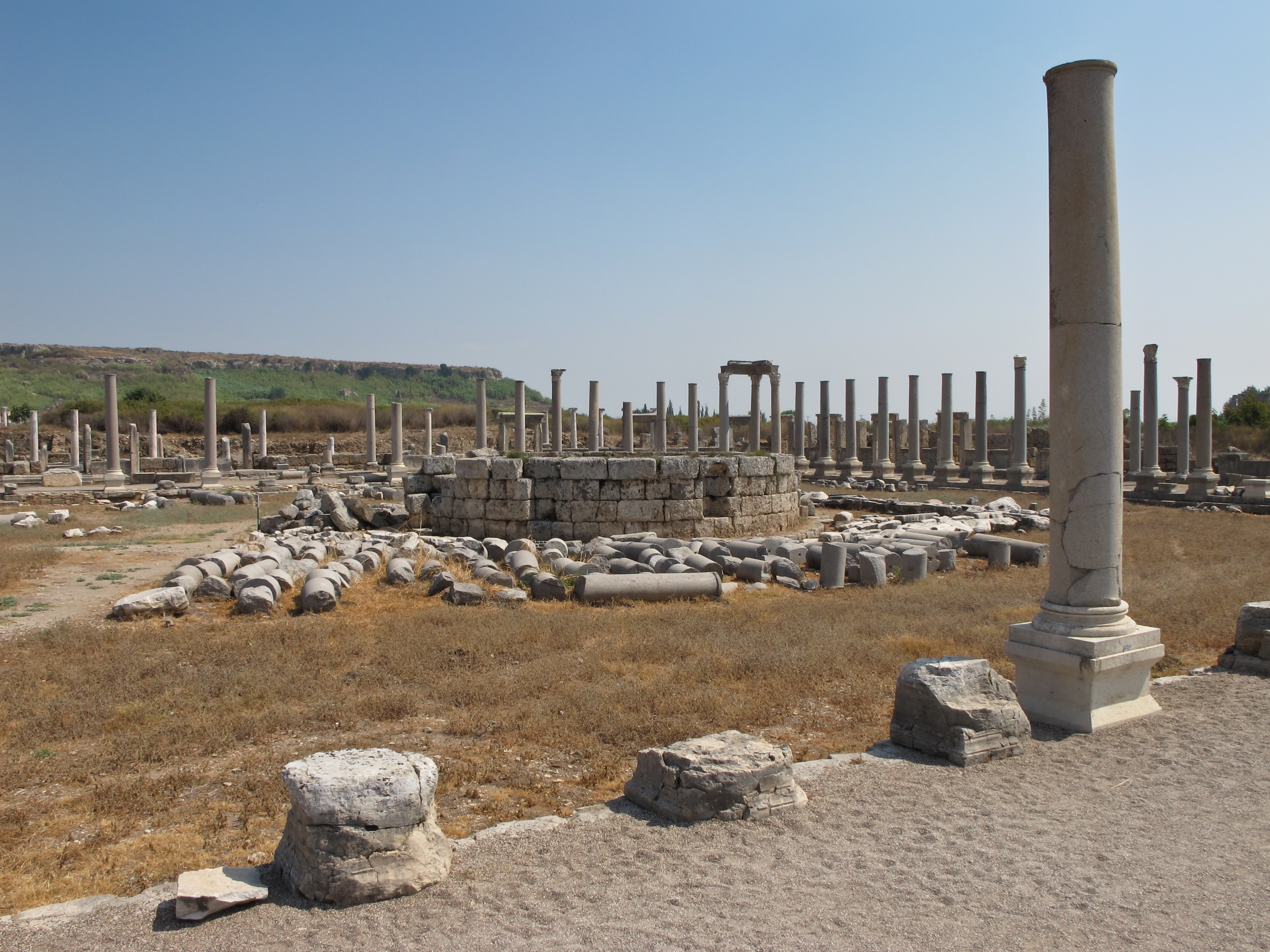 Perge's agora, in modern-day Turkey.